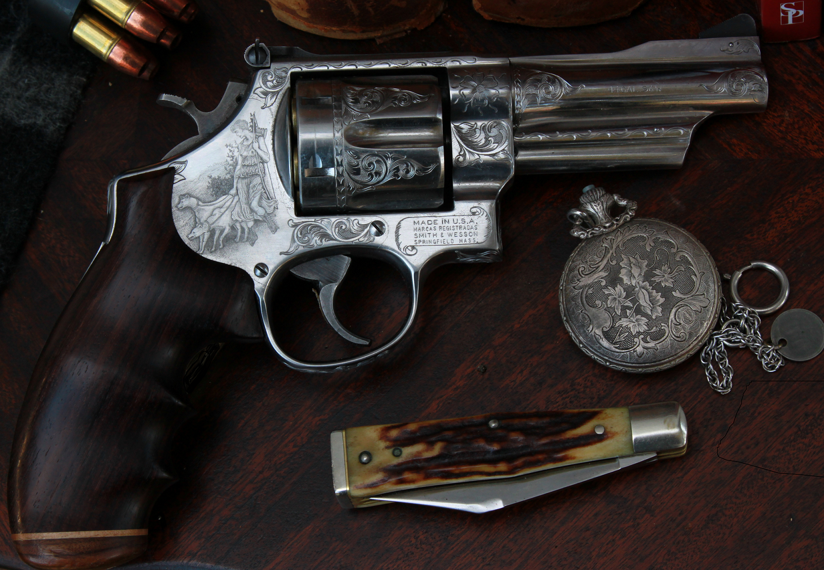 Smith and Wesson Mountain Gun circa 1995 Engraved through Smith and Wesson Custom Engraving Shop Figure is from Diana and Endemion by Walter Crane by Wayne D'Angelo.Scroll coverage by Walter K. Pearce. Barrel marked "Smith and Wesson .44 Cal. ie: 44 Russian -through .44 Remington Magnum.